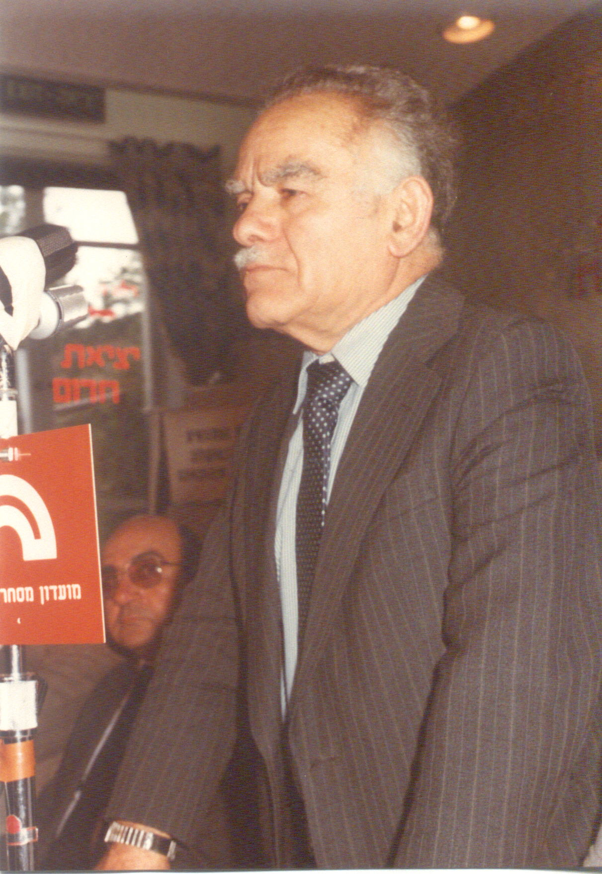 Ci-Club